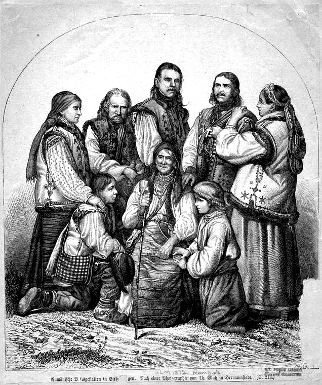 Romanians in Transylvania